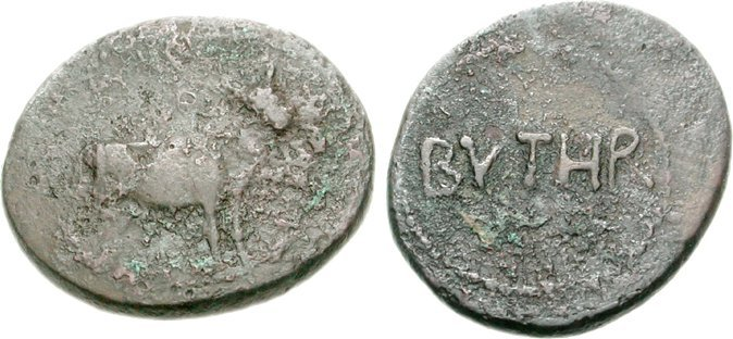 EPIRUS, Buthrotum. Pseudo-autonomous issue. Reign of Augustus, 27 BC-AD 14. Æ 20mm (3.90 g, 3h). Bull standing right / BVTHR across field. RPC 1394.2 (this coin; illustrated); MG 40; SNG Copenhagen -. Near VF, brown patina, areas of light roughness. From the Patrick Villemur Collection.